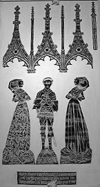 Brass rubbing of monumental brass of Thomas Peyton (1418-1484) of Isleham, Cambridgeshire, twice Sheriff of Cambridgeshire and Huntingdonshire, in 1443 and 1453. Brass situated on top of his chest tomb in the chancel of Isleham Church. On either side of him stand his two wives Margaret Bernard, first wife and heiress of Isleham, and second wife Margaret Francis.